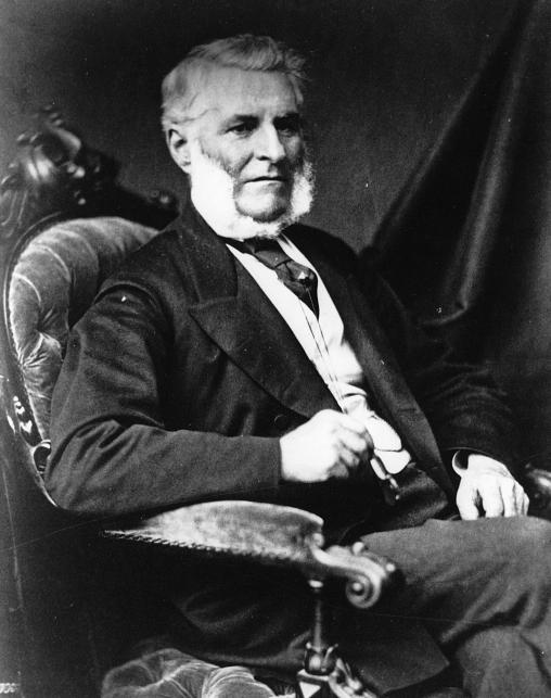 Sir Francis Hincks, circa 1875